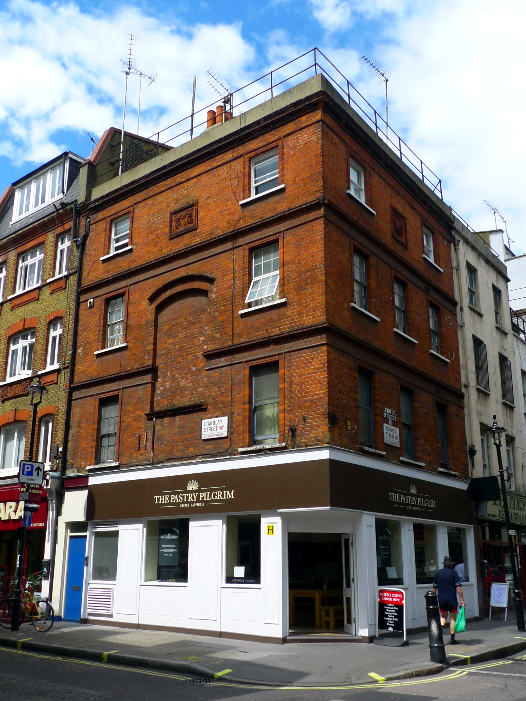 Until around the 1950s at least, this was a pub. Now a takeaway cafe on Berwick Street (one of many cafes that have been on this site), serving pastry-based foods (as you might expect) such as pies, sausage rolls and the like, alongside baguettes and soup. The pies are pretty decent, actually and it's not bad value, but like the many outlets before it, it's since closed. (Photo of pie and mash takeaway.) Address: 8 D'Arblay Street (formerly Portland Street). Former Name(s): Wrapid; The Britannia. Owner: Watney Combe Reid (former). Links: Qype Dead Pubs (history)